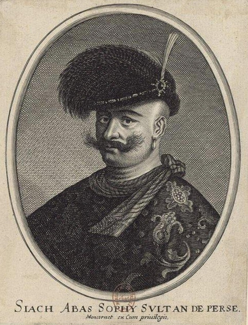 A portrait of Iranian ruler Abbas I of the Safavid dynasty.